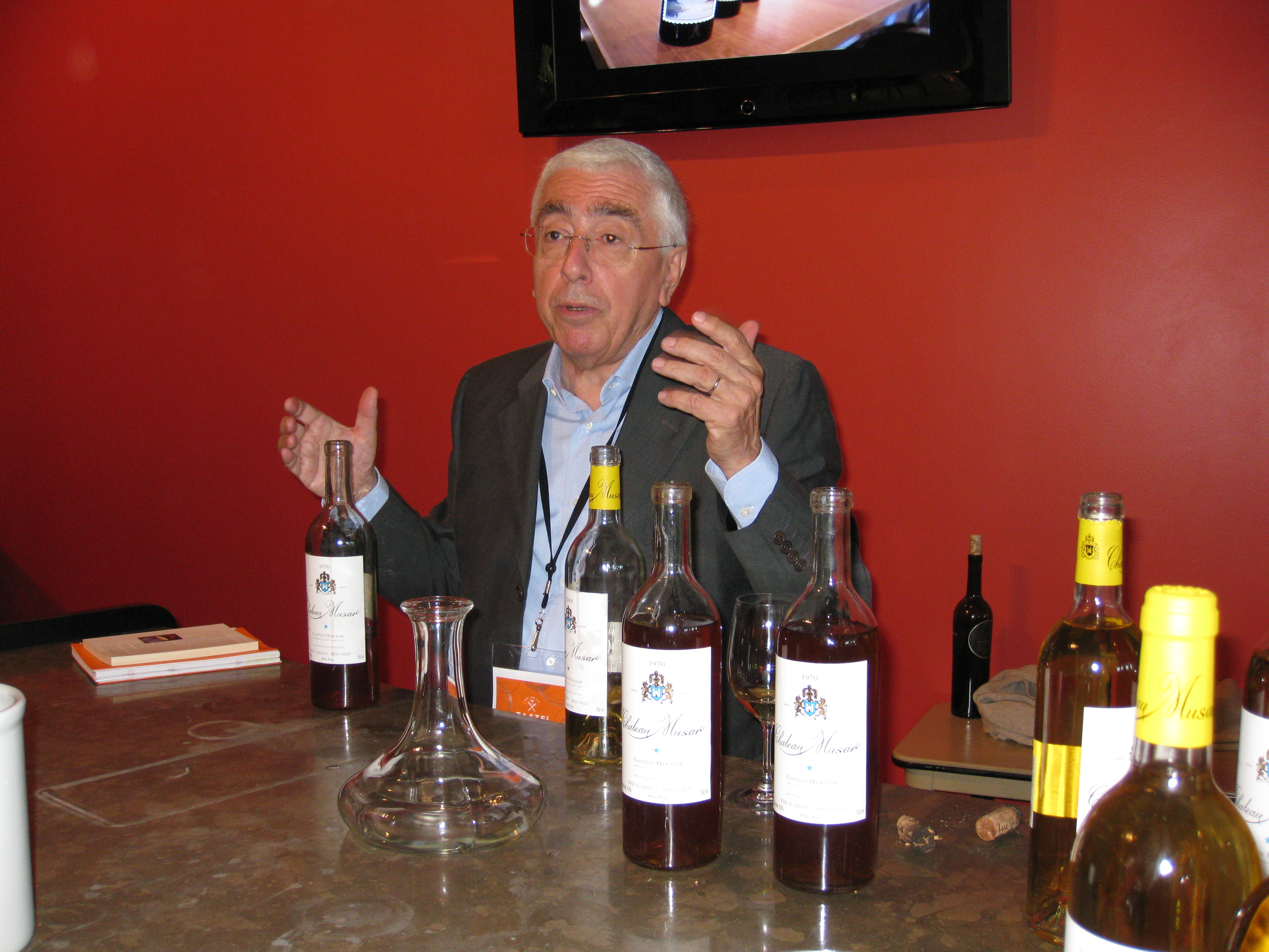 Lebanese Winemaker Serge Hochar of Chateau Musar